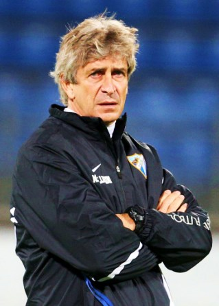 Manuel Pellegrini Malaga